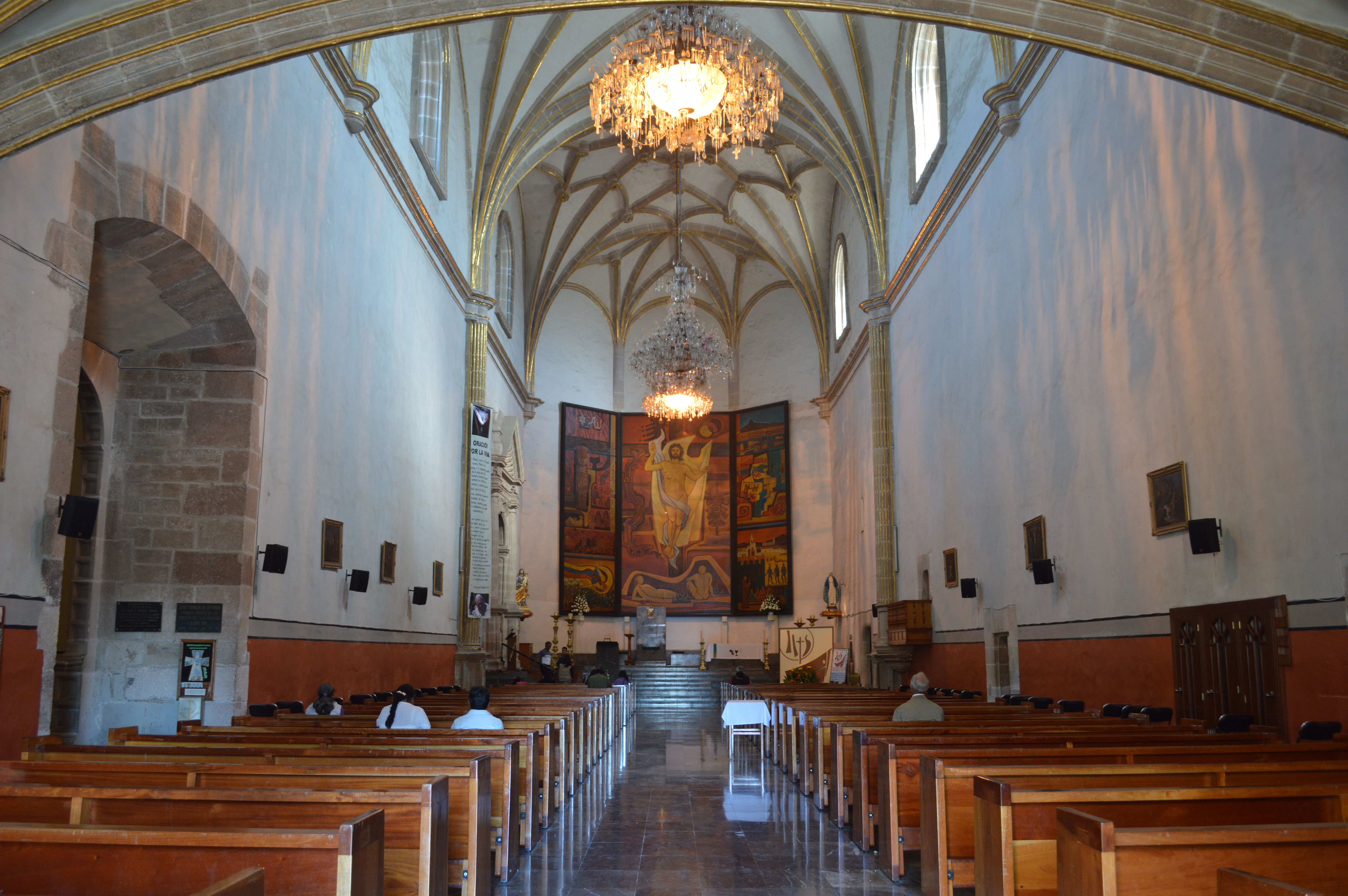 Interior of the cathedral in Tula de Allende, Hidalgo, Mexico